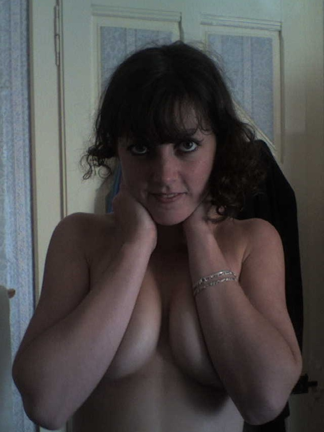 Some girls do it with their elbows